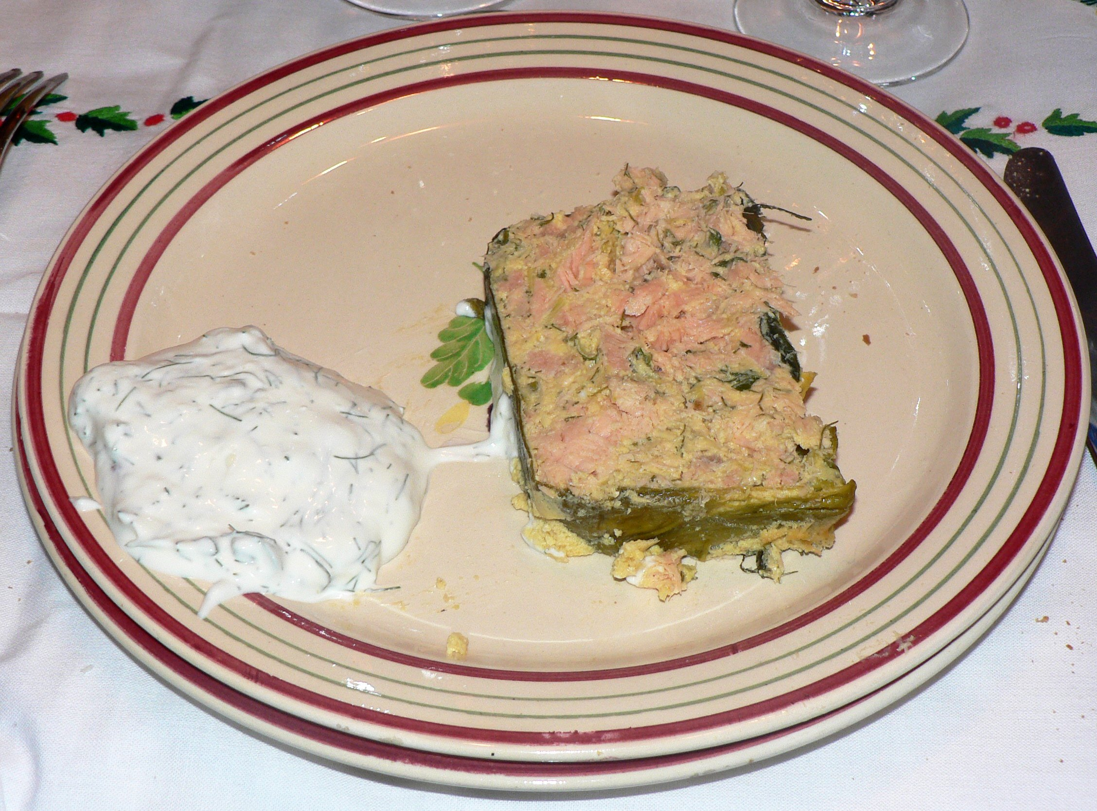 Salmon pâté, with a cream and herb sauce